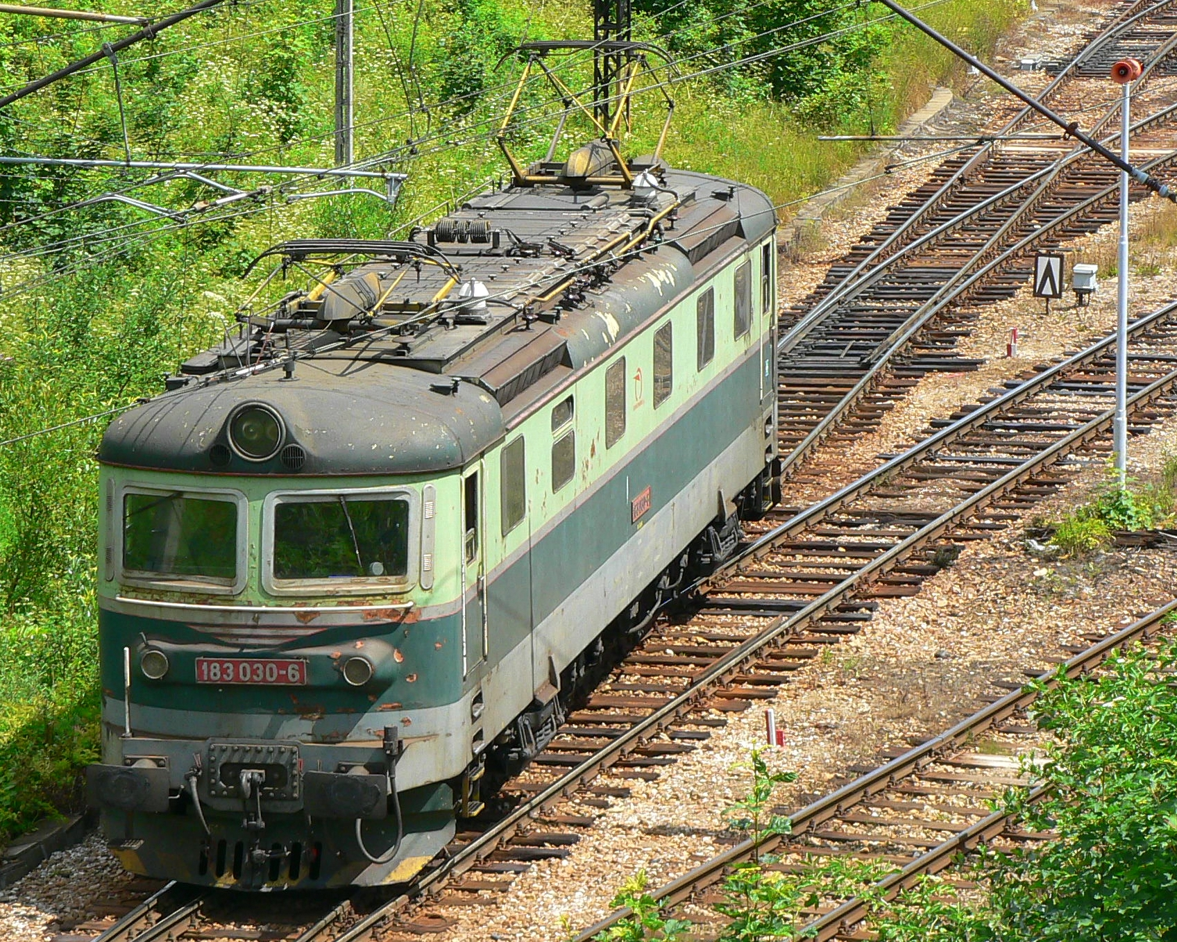 Slovak 183-030-6 locomotive Author: Wojsyl, 2006